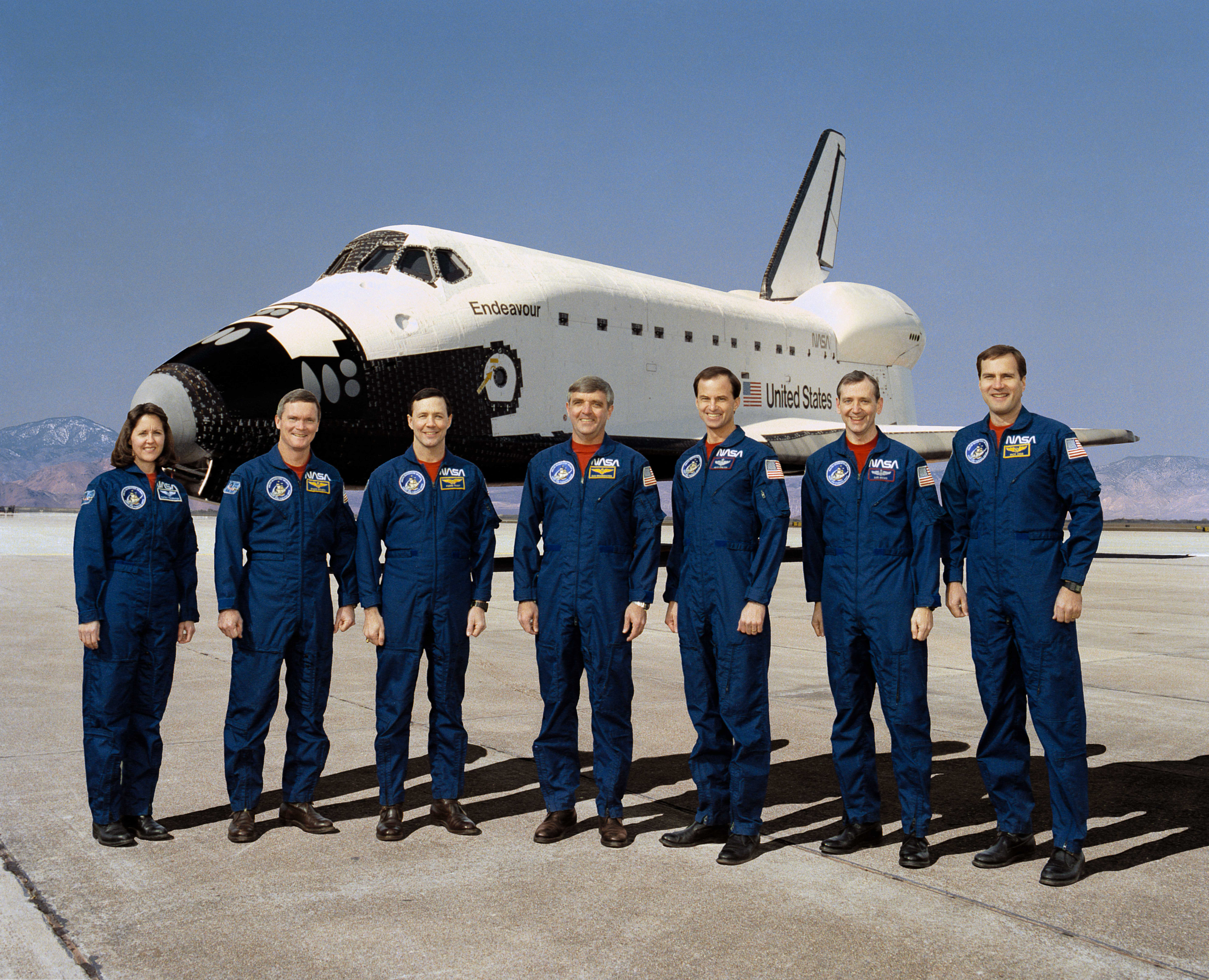 These seven NASA astronauts are currently training for the first flight of Endeavour, Orbiter Vehicle (OV) 105, seen in the background. Crewmembers, wearing navy blue flight suits, are (left to right) Mission Specialist (MS) Kathryn C. Thornton, MS Bruce E. Melnick, MS Pierre J. Thuot, Commander Daniel C. Brandenstein, Pilot Kevin P. Chilton, MS Thomas D. Akers, and MS Richard J. Hieb. This crew portrait was made by NASA JSC contract photographer Mark Sowa.